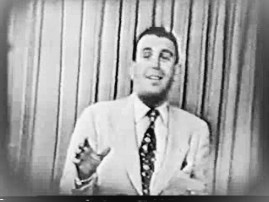 Dennis James, American television host and sports announcer, hosting an episode of Okay, Mother.